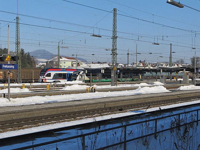 Railway Station Freilassing